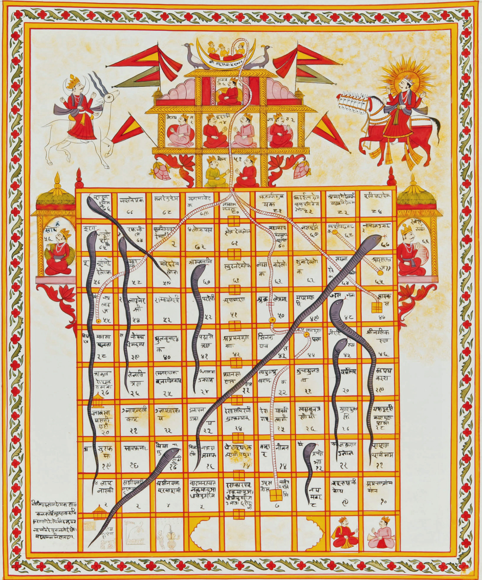 Jain version Game of Snakes & Ladders called jnana bazi or Gyan bazi, India, 19th century, Gouache on cloth